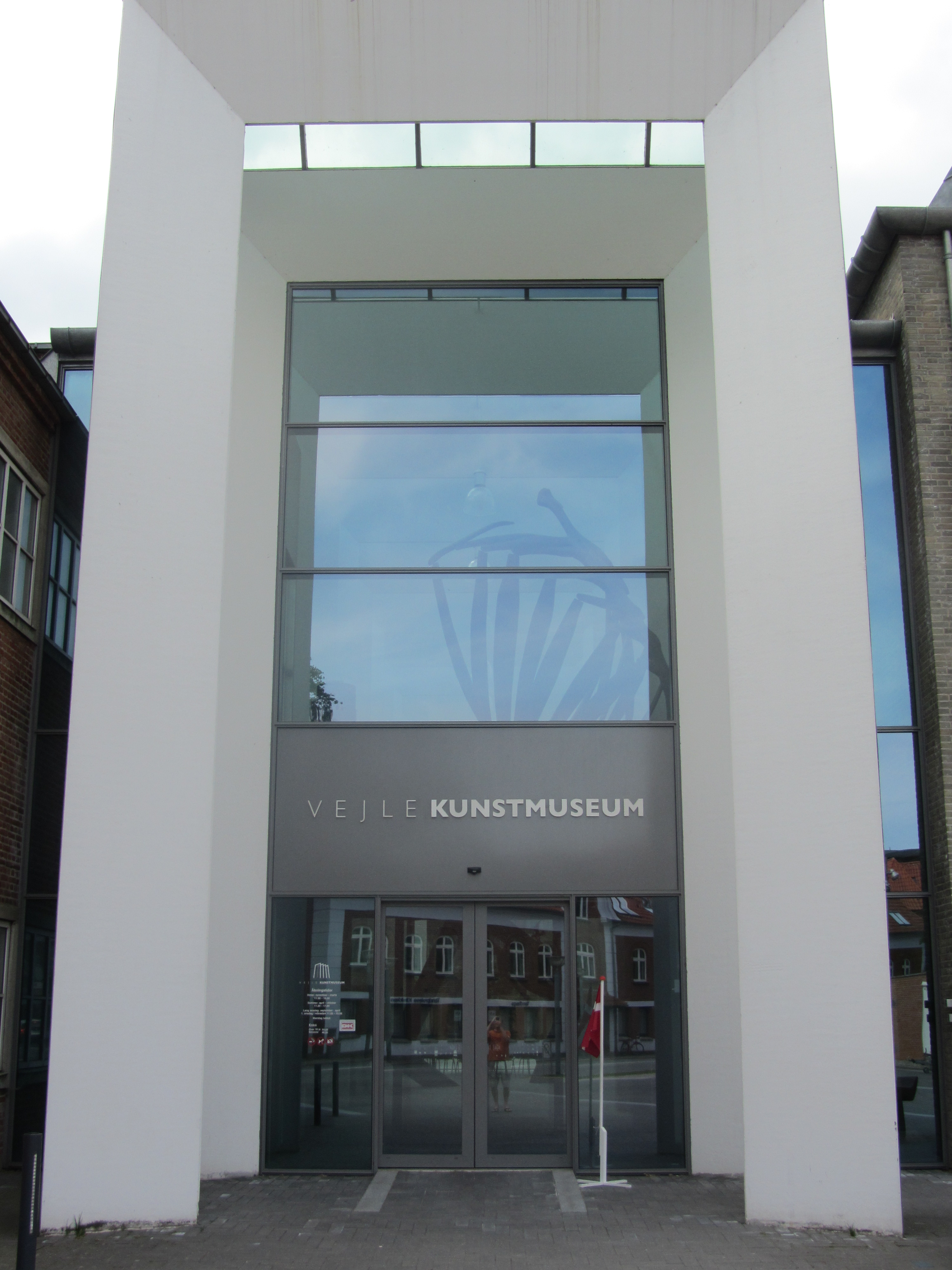 Art Museum in Vejle, Denmark. The museum was established in 1899. This portal entrance was built in 2008.